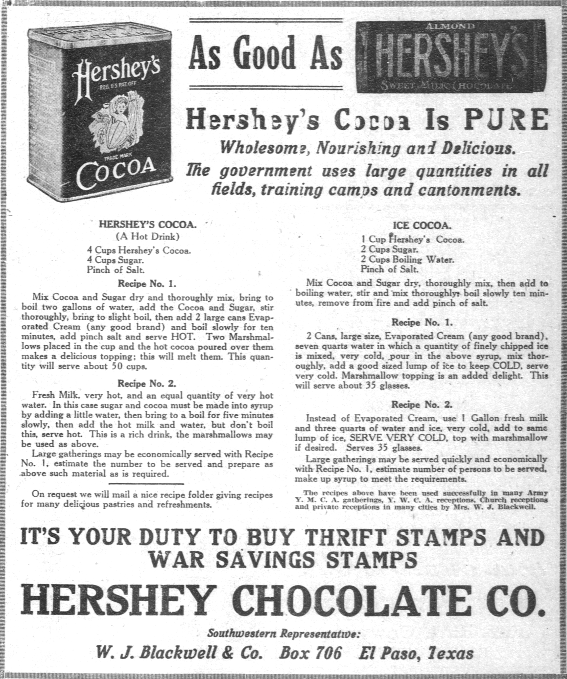 Hershey's Cocoa ad from the World War One period. Recipes also included.